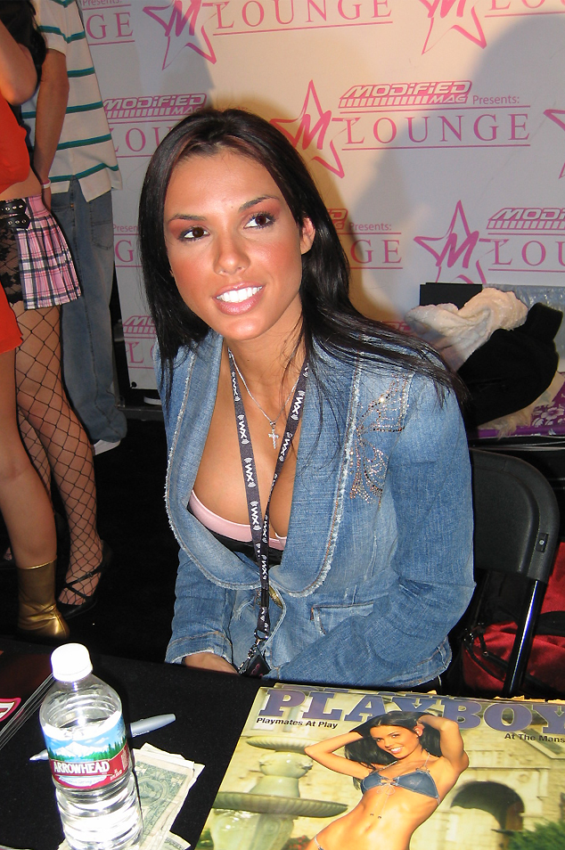 Carmella DeCesare, taken at Hot Import Nights in Los Angeles.